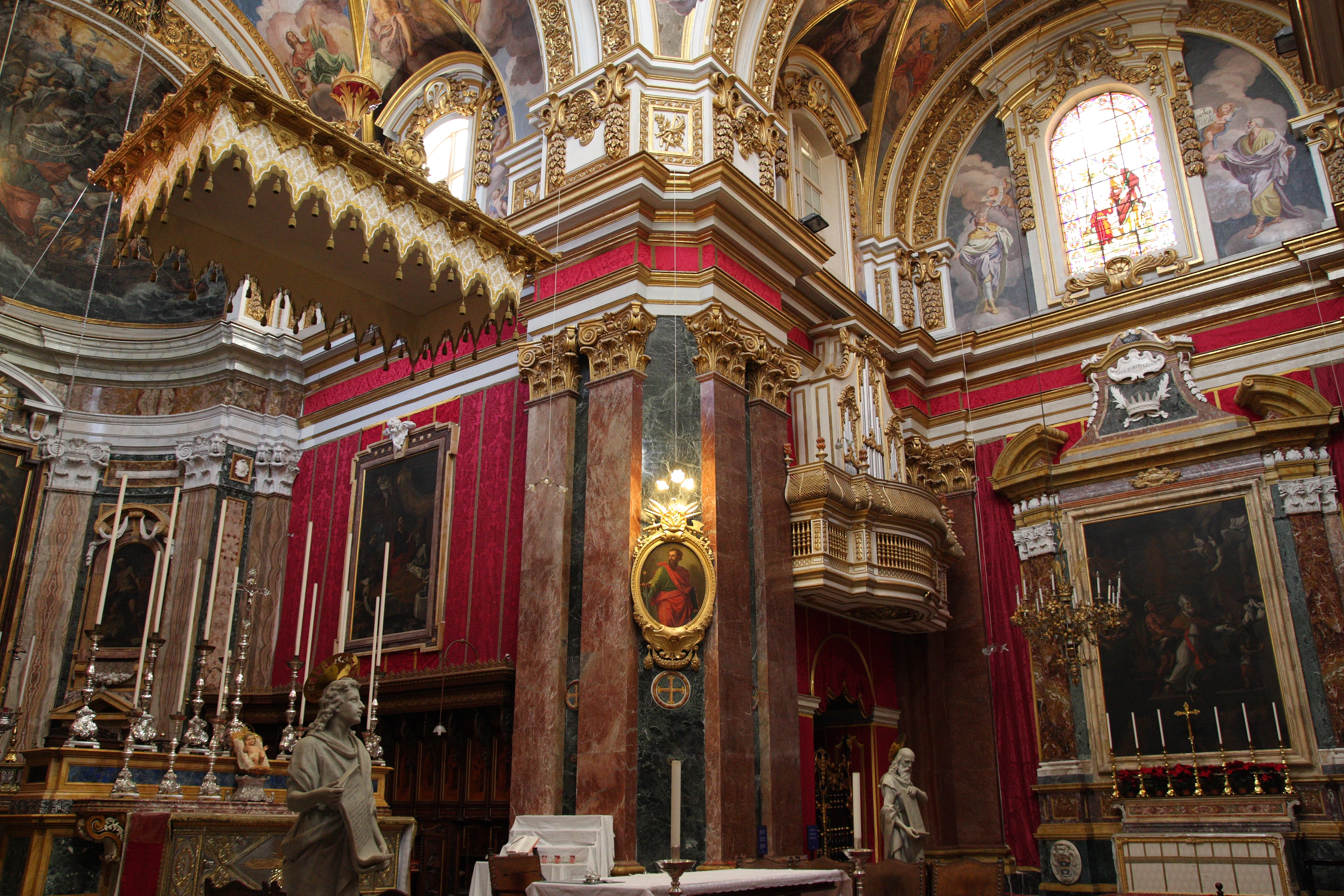 St Paul's Cathedral, Mdina, Malta